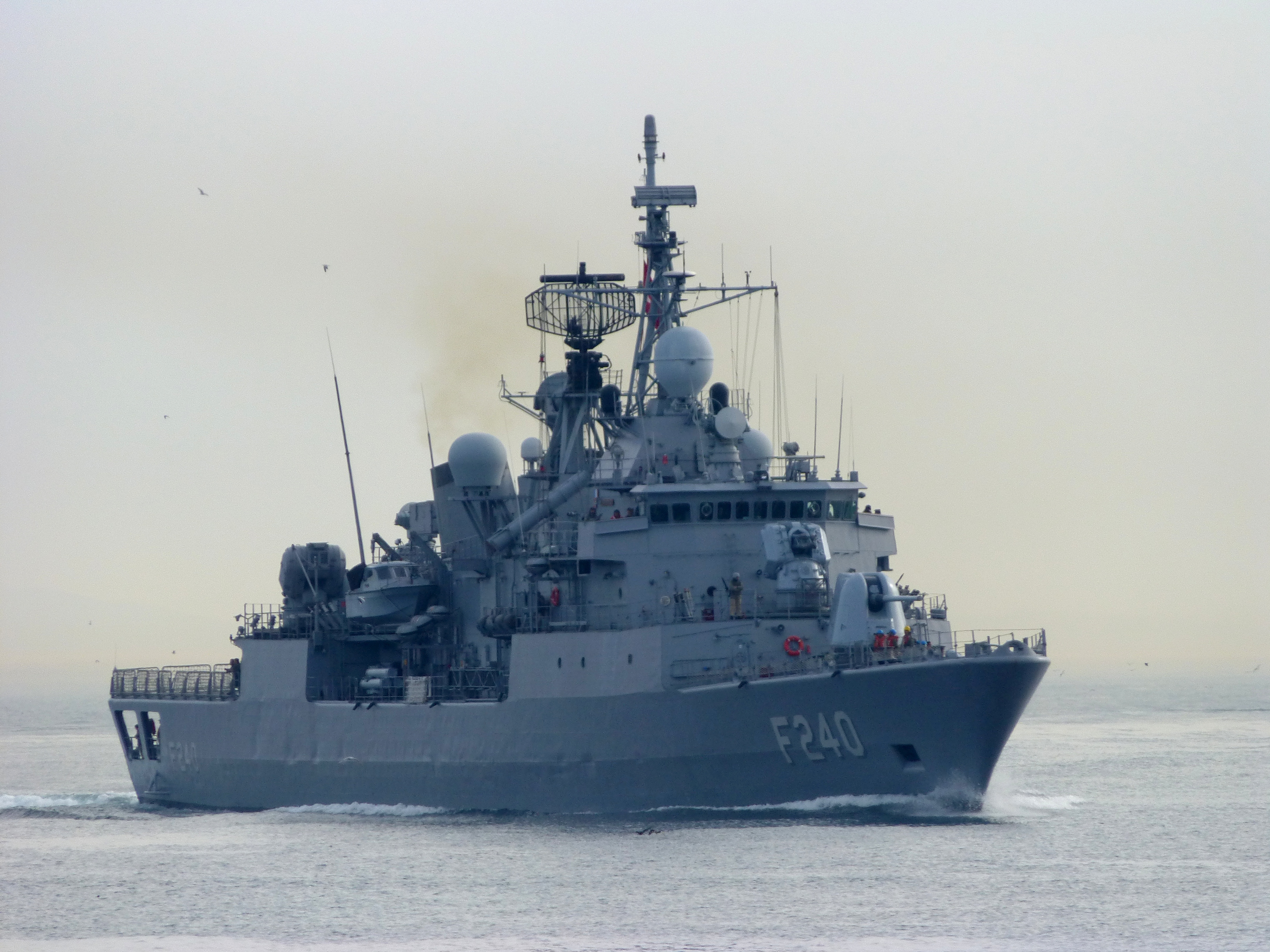 TCG Yavuz (F-240) off Istanbul